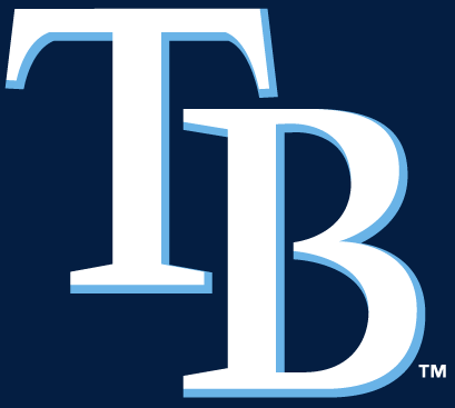 Logo of the Tampa Bay Rays.